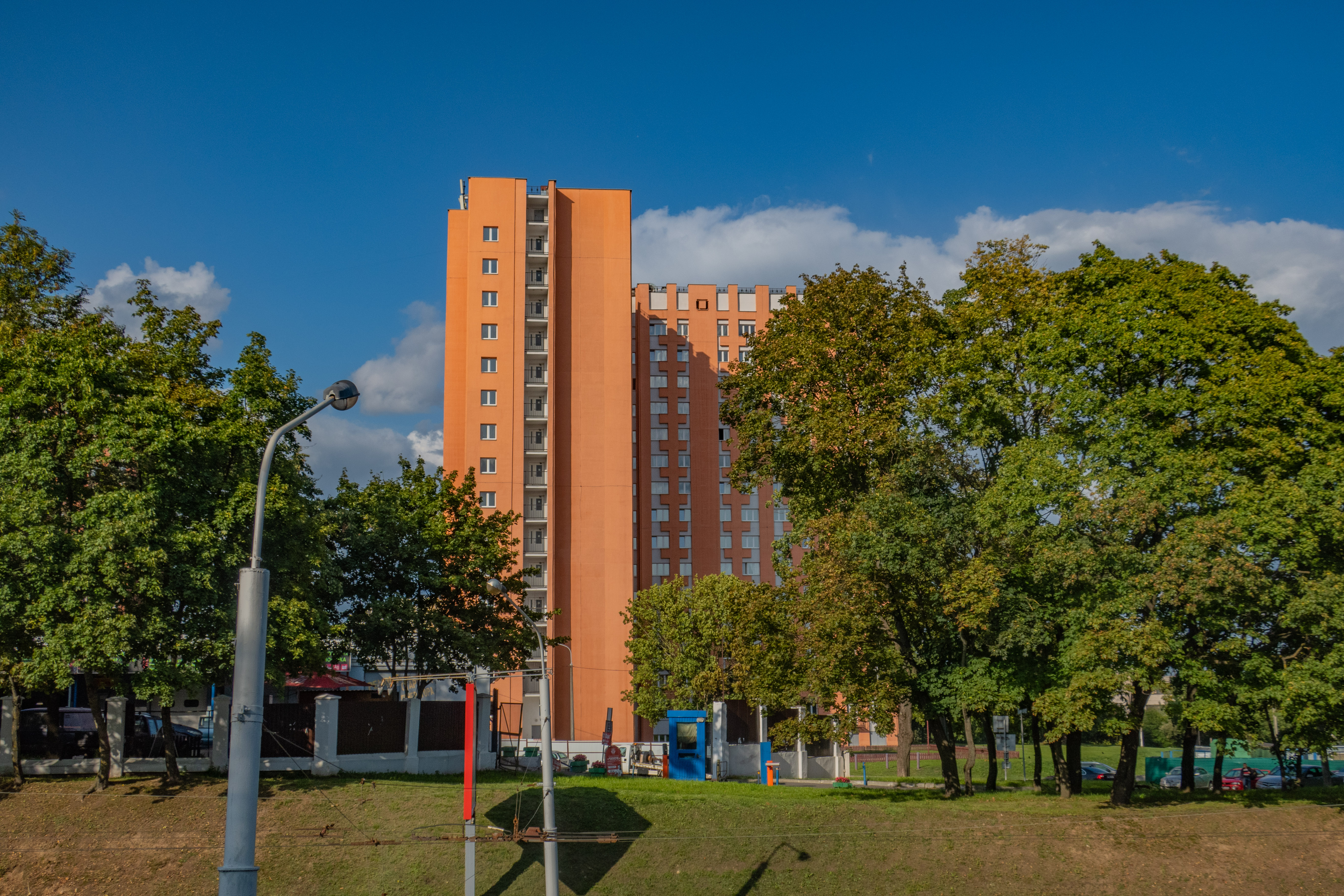 Belarusian State Technological University hostel. Minsk, Belarus